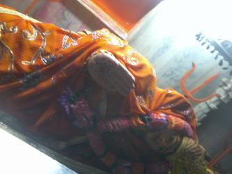 Harsidhhi Mataji Idol at Kadasar in Cave.